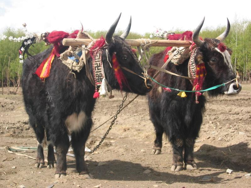 Tibet: Boss gunniens (yaks) are decorated and honored by the families they are part of. The swastika is a buddhist symbol.